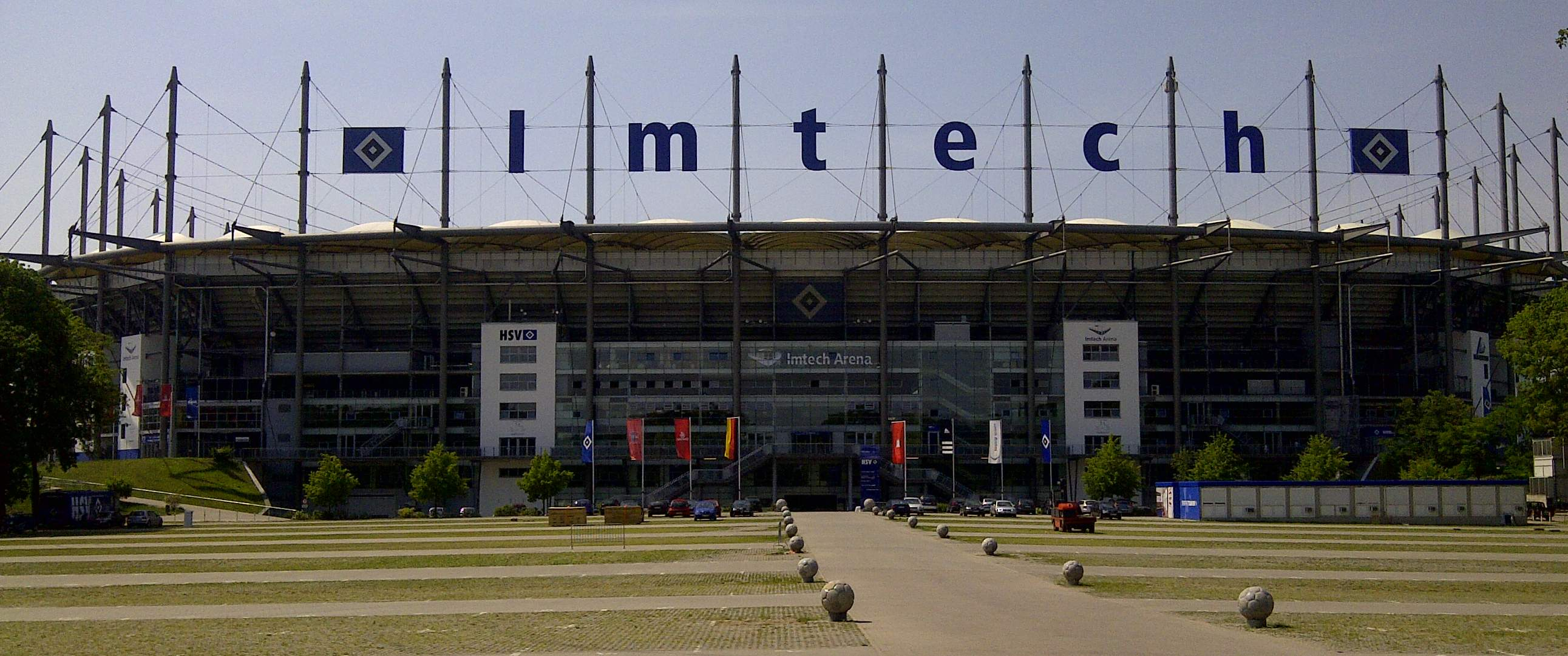 Lettering of the eponymous financier, on the top the Imtech Arena in Hamburg